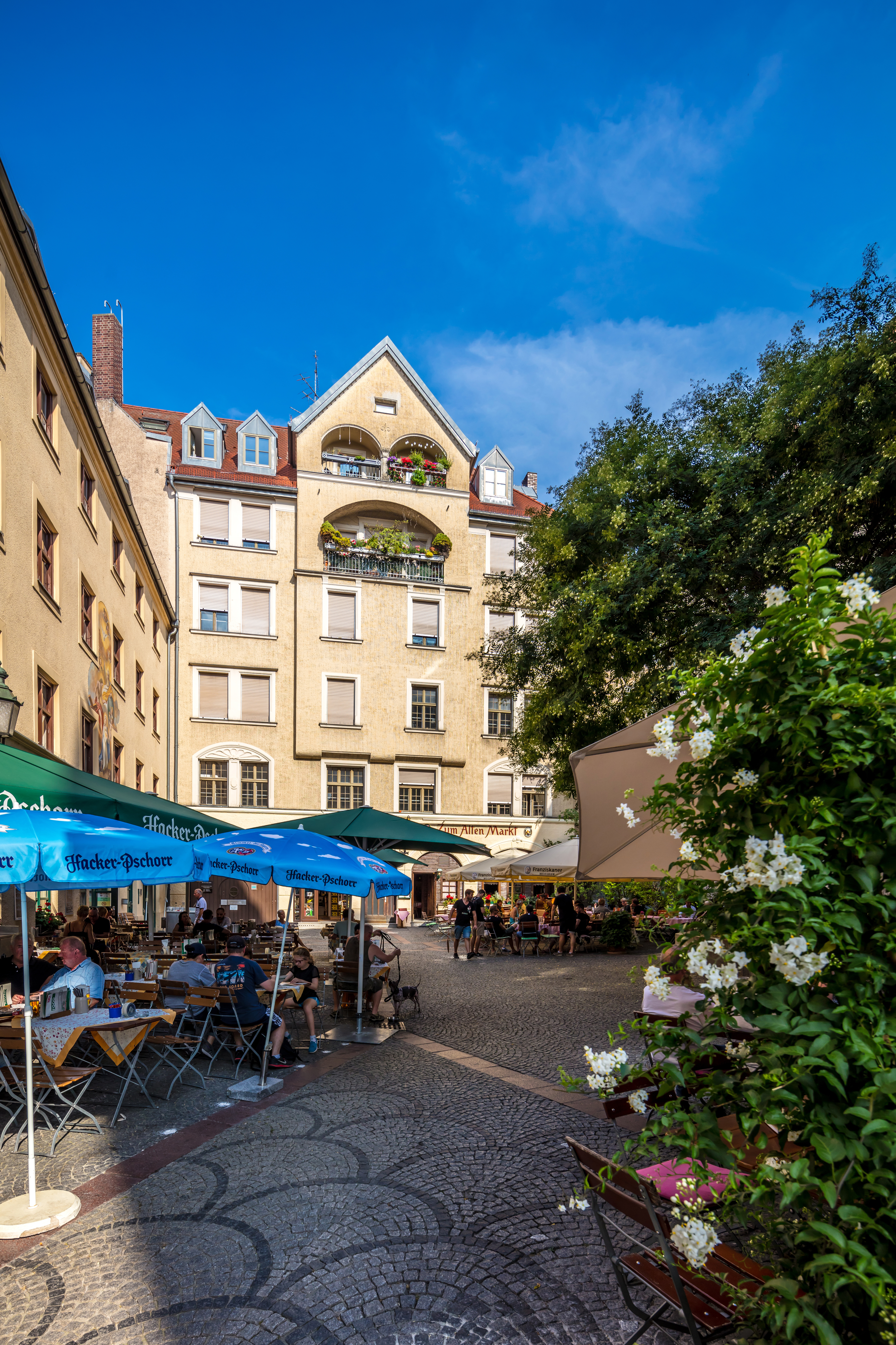 Dreifaltigkeitsplatz, Munich (08/2018)